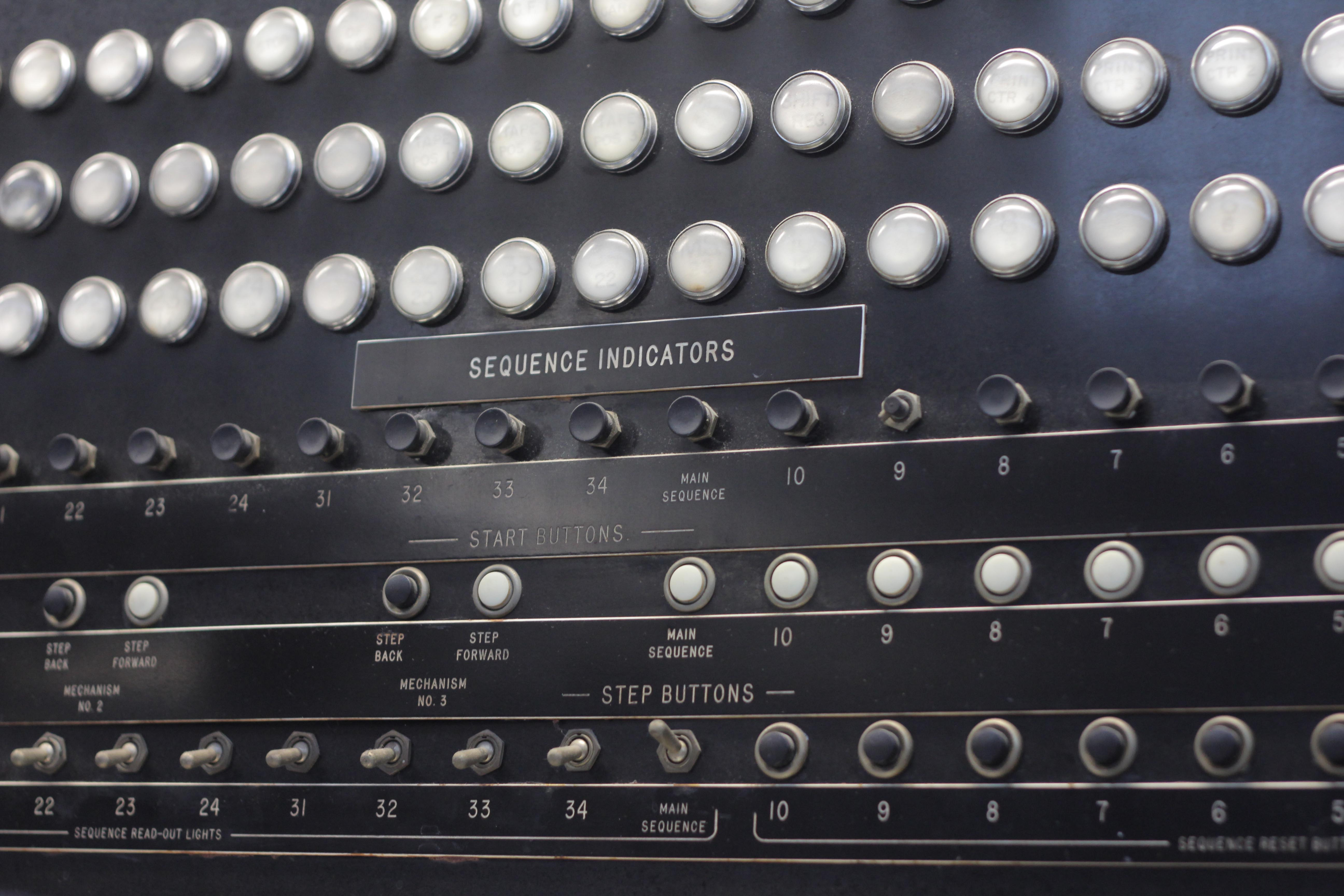 IBM Automatic Sequence Controlled Calculator (ASCC) - Harvard Mark I Computer - as seen in Science Building at Harvard University